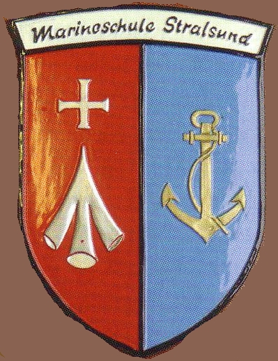 Internal coat of arms of the Bundeswehr (Armed Forces of the Federal Republic of Germany). → Remarks on naming and categorization scheme Wappen der Marineschule Stralsund (1990/91)